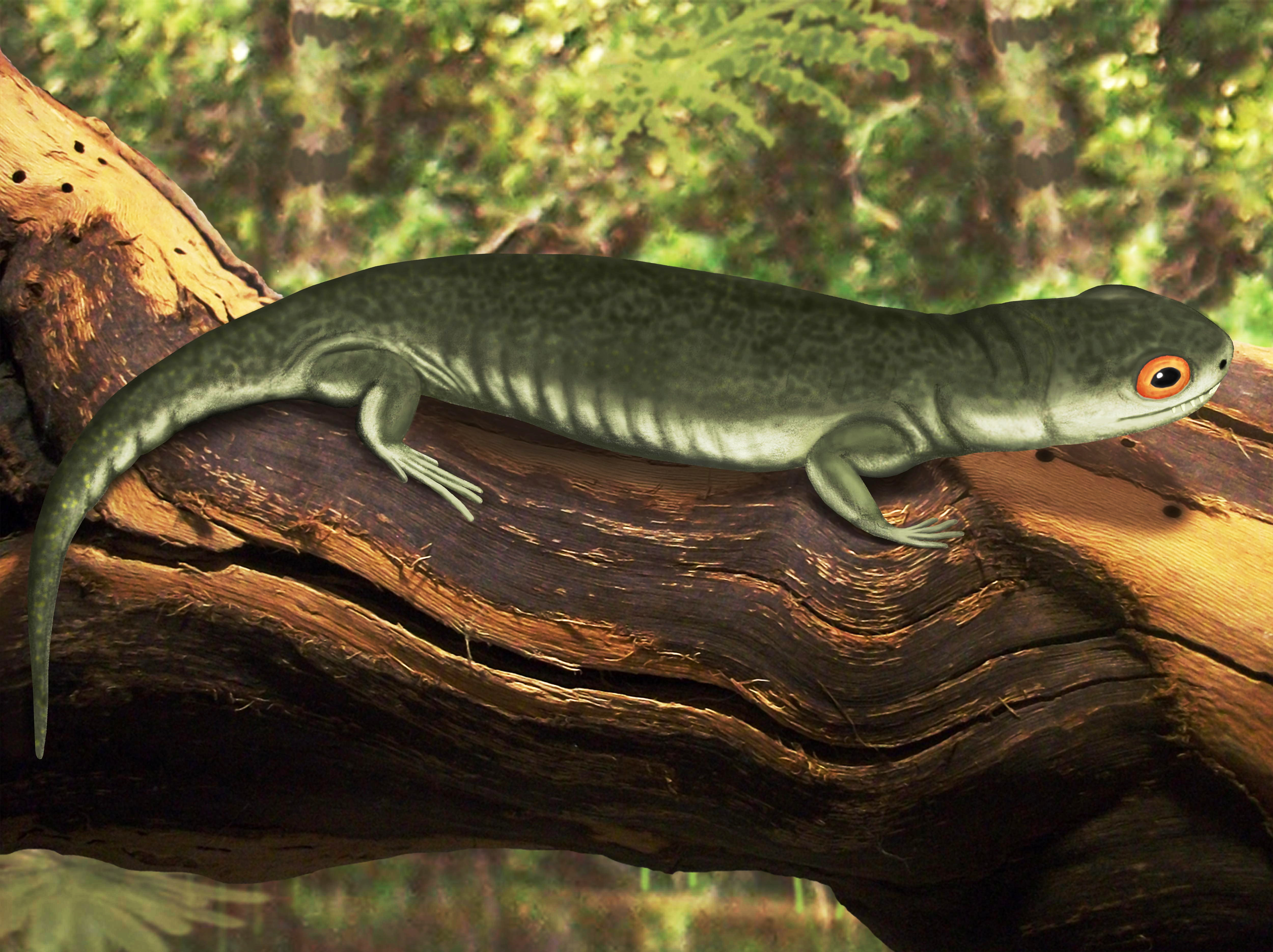 Life restoration of Batropetes fritschi. Based on: Figure 95 of The Order Microsauria by Robert L. Carroll and Pamela Gaskill. Figure 5 of "Batropetes from the Lower Permian of Europe- a microsaur, not a reptile" by Robert L. Carroll. Journal of Vertebrate Paleontology 11 (2): 229-242.